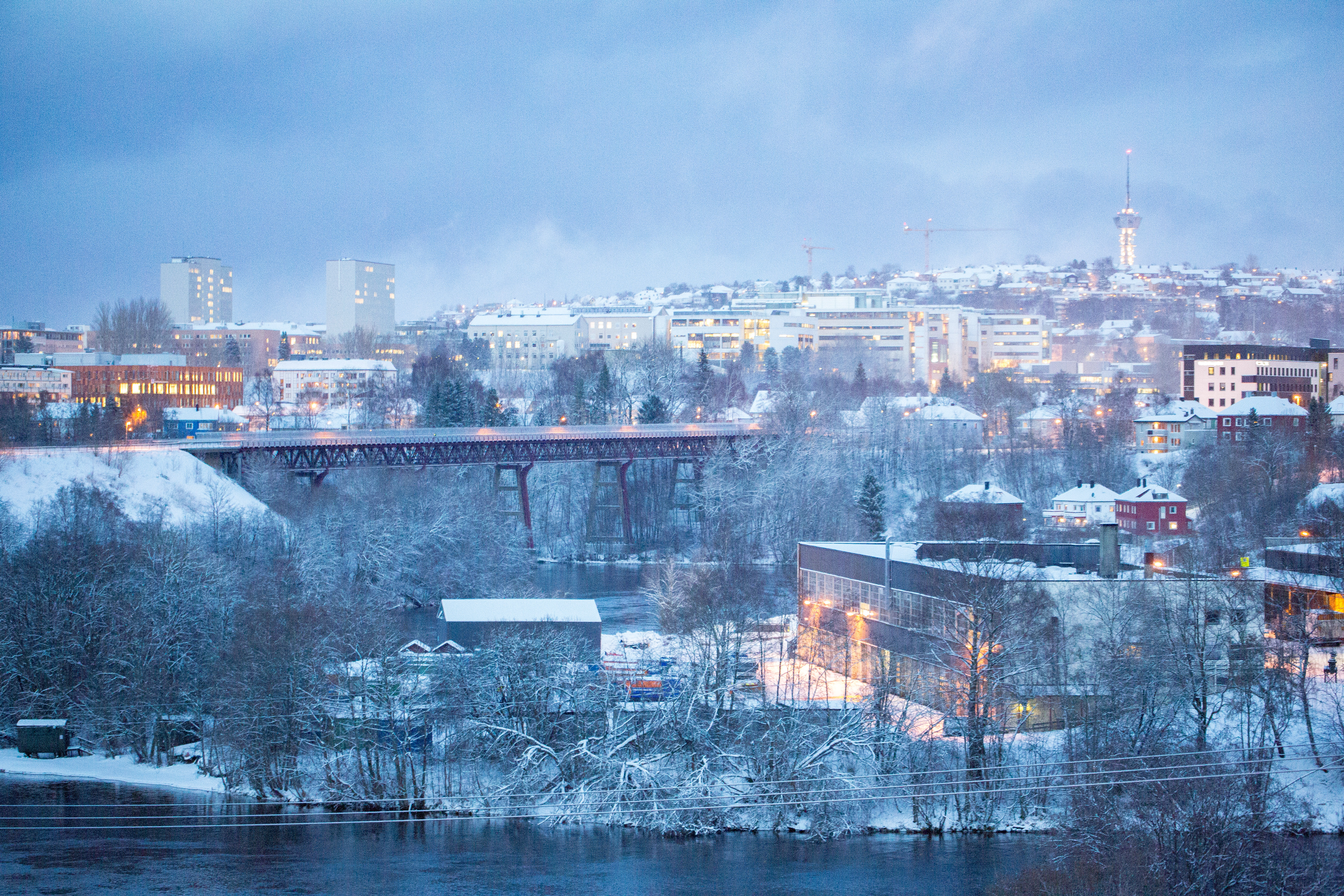 Stavne bridge and NTNU Gløshaugen in winter seen from west, Trondheim, Norway